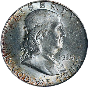 Benjamin Franklin Half Dollar Obverse. PNG version of Image:Franklin_HalfObverse.jpg by Bobby131313. No image enhancements except transparency. Converted from a high-quality JPEG with no (at least noticeable) compression artifacts.